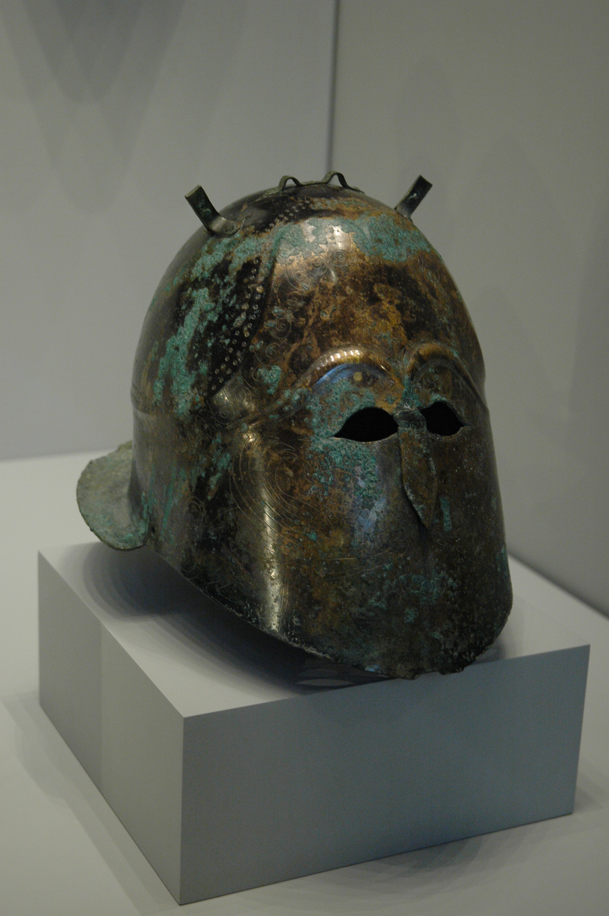 The motifs drawn on this helmet are associated with death and funerals: sphinxes, tombs and satyrs. It probably formed part of the burial offerings deposited in the tomb of a warrior from southern Italy. Bronze, South Italy, 400–375 BC.